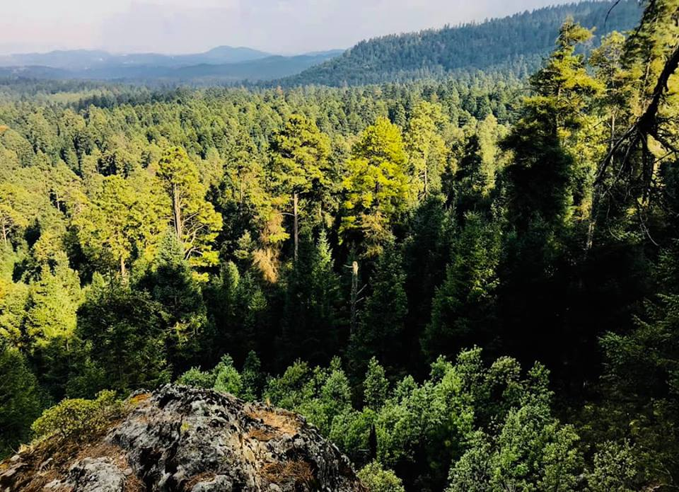 Vista desde el paraje El Mirador, en el Ejido de Cahuacán.